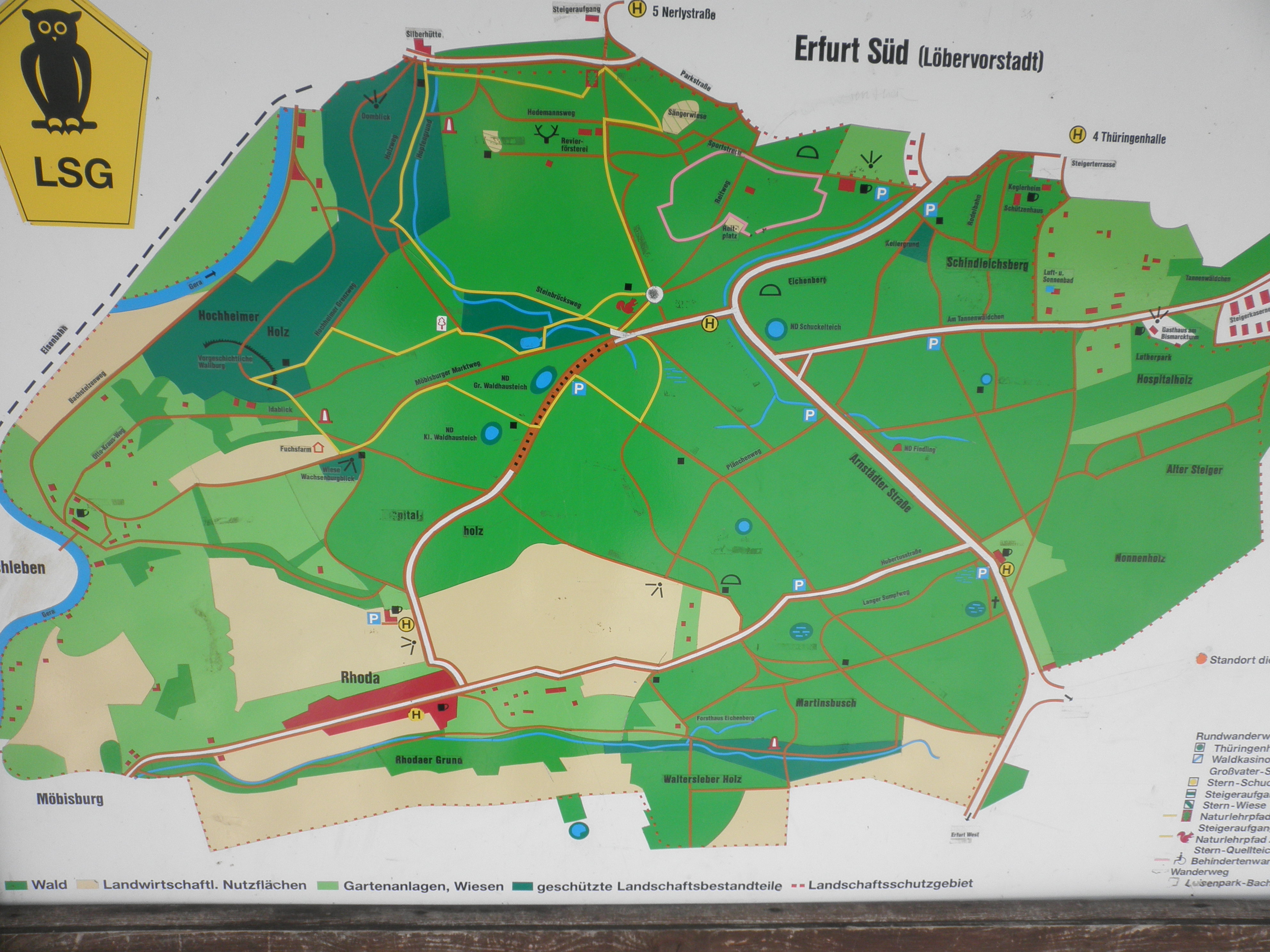 Information Table Steigerwald (Erfurt) in Thuringia